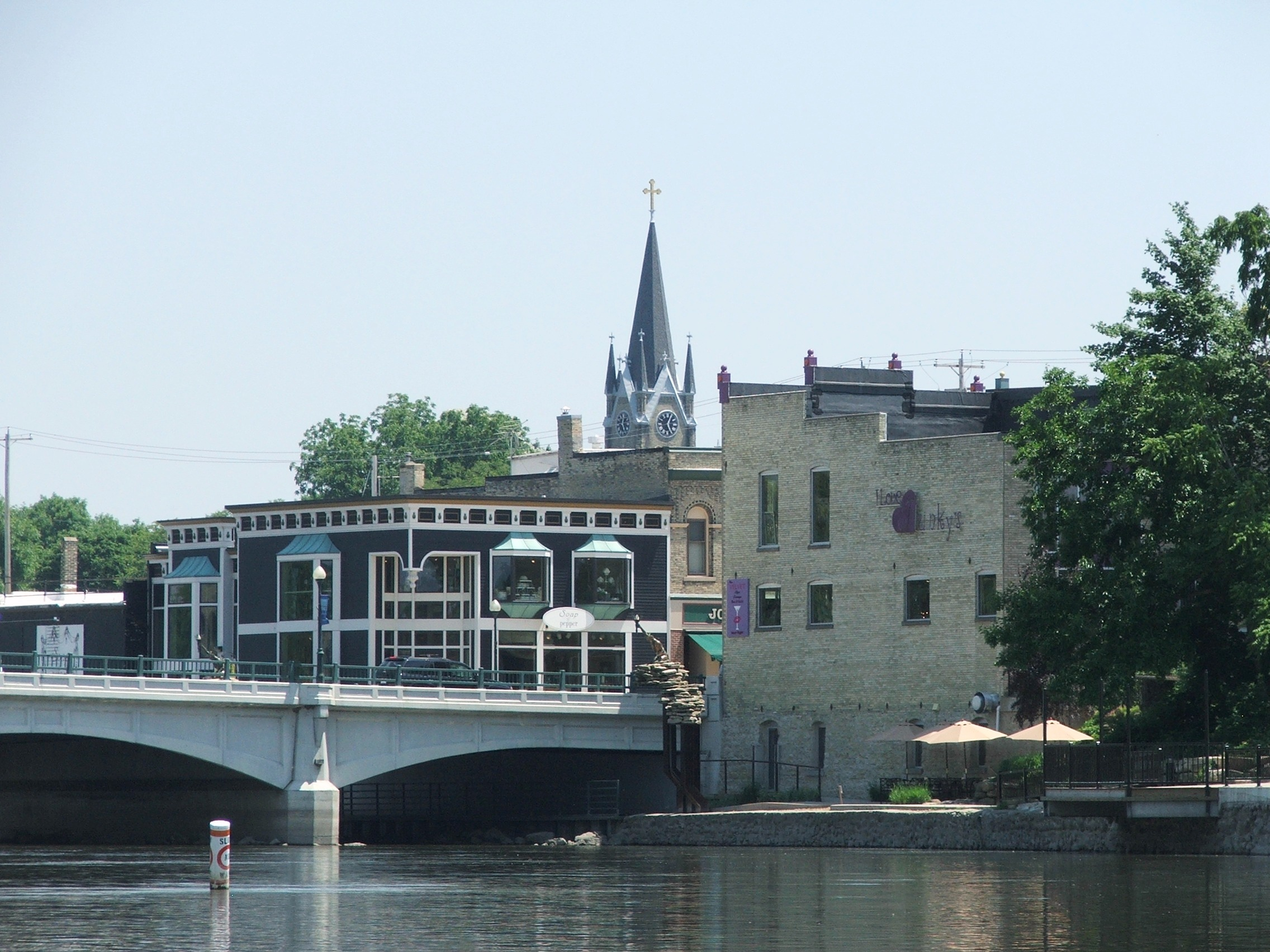 Downtown Fort Atkinson, Wisconsin. Photo taken from the Rock River, looking south east.